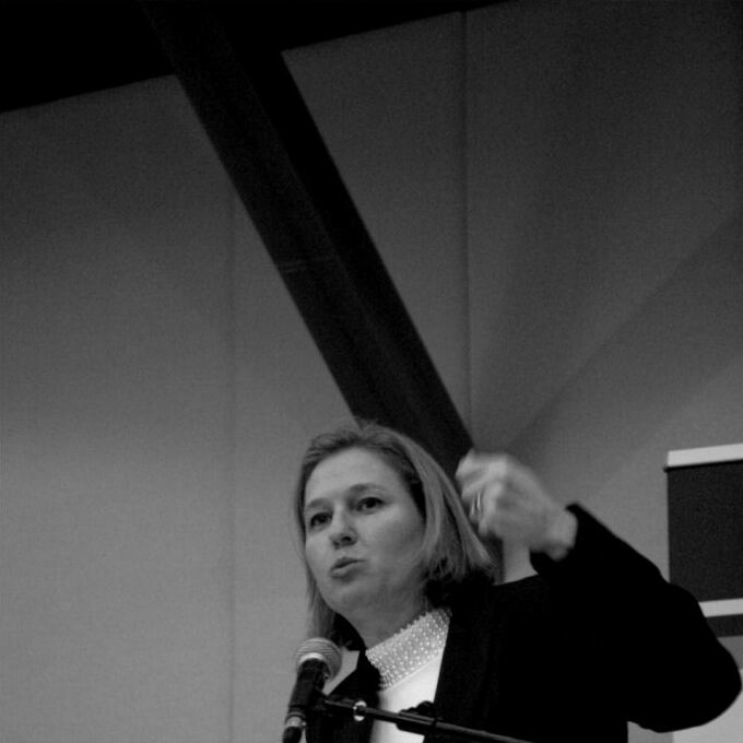 Israel's Foreign Minister Tzipi Livni speaking at a meeting of the World Jewish Congress in Jerusalem